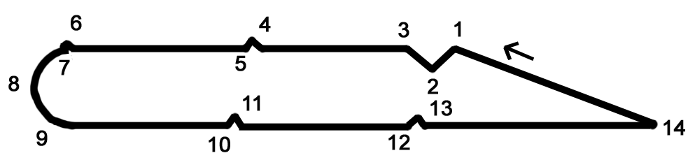 Track map of Marrakech Street Circuit in Morocco. 2009.